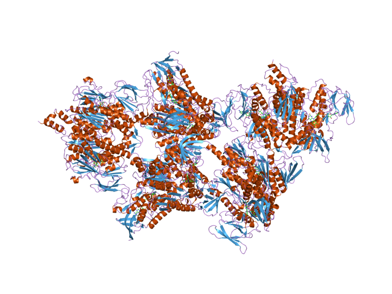 Cartoon representation of the molecular structure of protein registered with 1zy8 code.